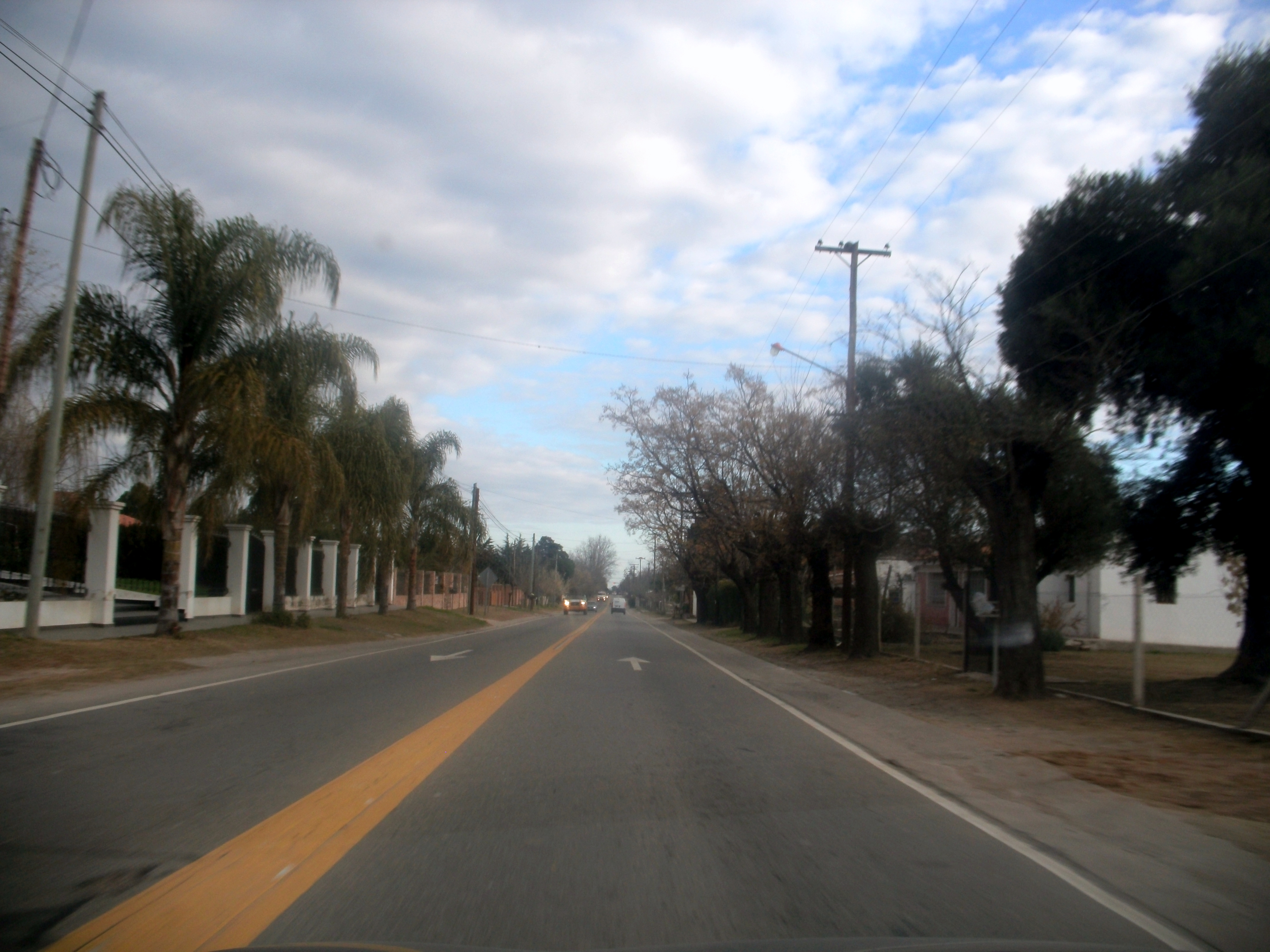 Quebrada de los Pozos, Prov. de Córdoba.